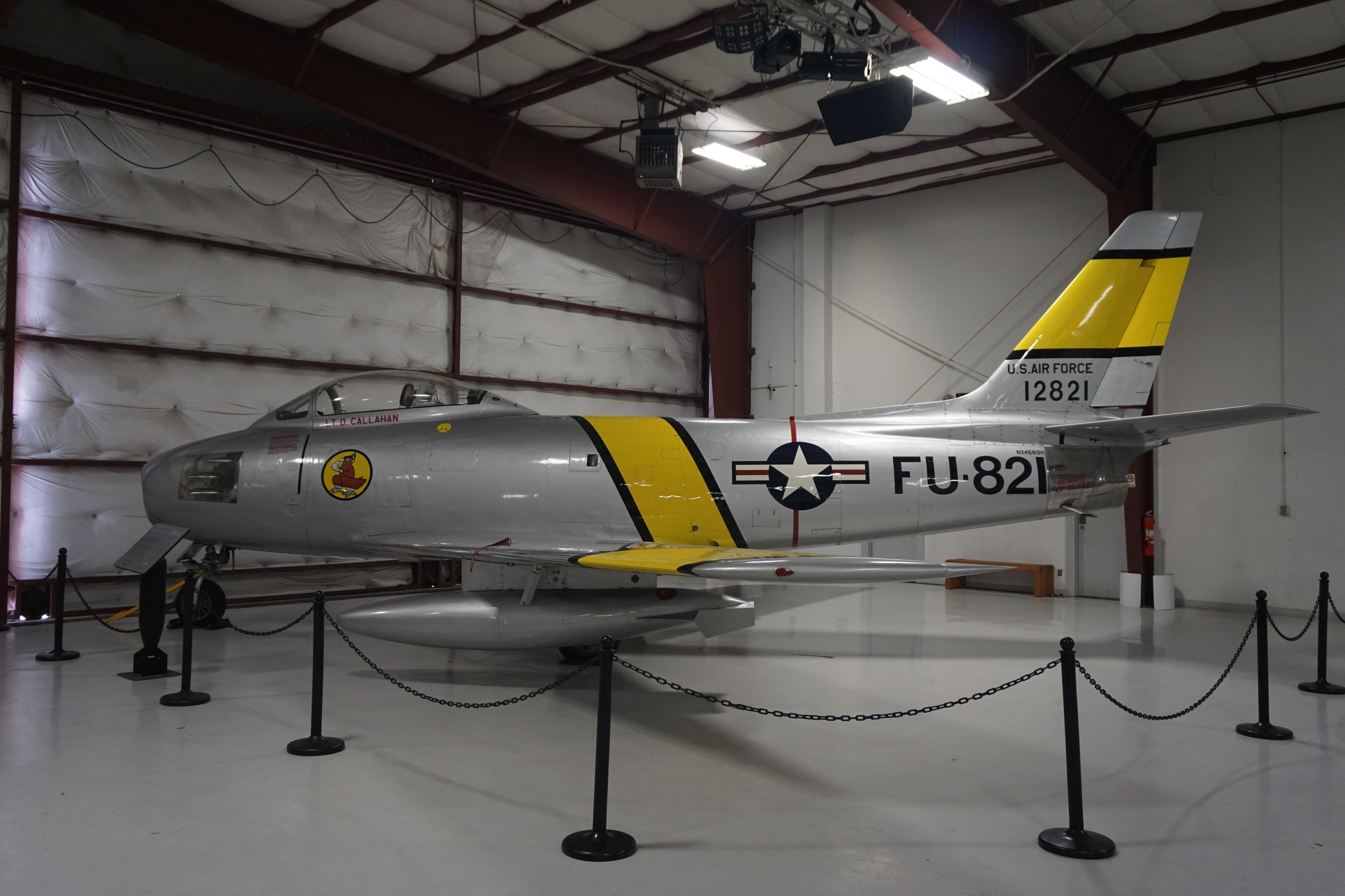 A North American F-86E Sabre on display at the Cavanaugh Flight Museum at Addison Airport in Addison, Texas (United States).